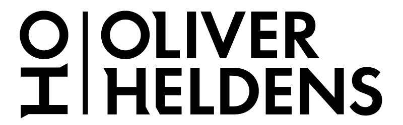 Oliver Heldens logo